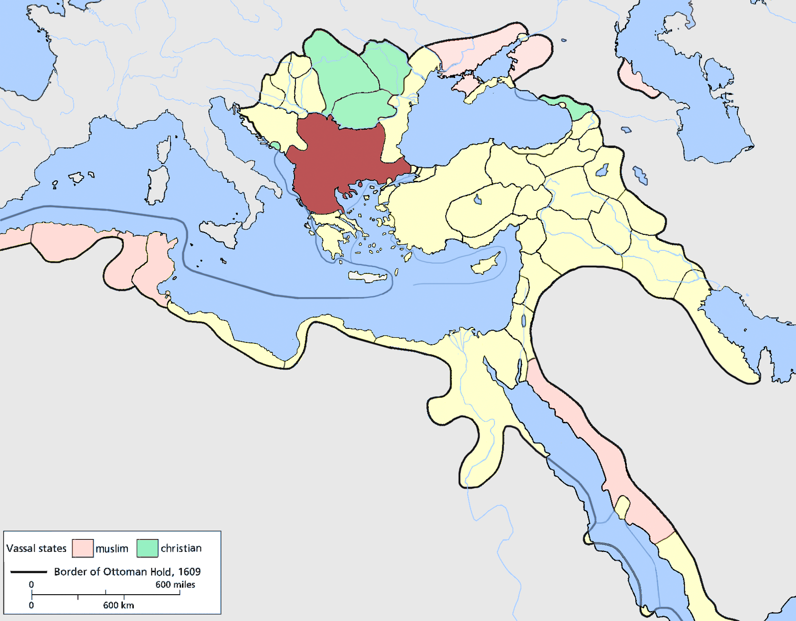 Rumelia Eyalet, Ottoman Empire (1609). Source: Encyclopedia of the Ottoman Empire at Google Books By Gábor Ágoston, Bruce Alan Masters